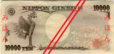 Series E 10000 Yen Bank of Japan note. Bronze Fenghuang (Phoenix) of the Byōdō-in Temple, Kyoto prefecture. First issued in 2004. 160mm x 76mm.